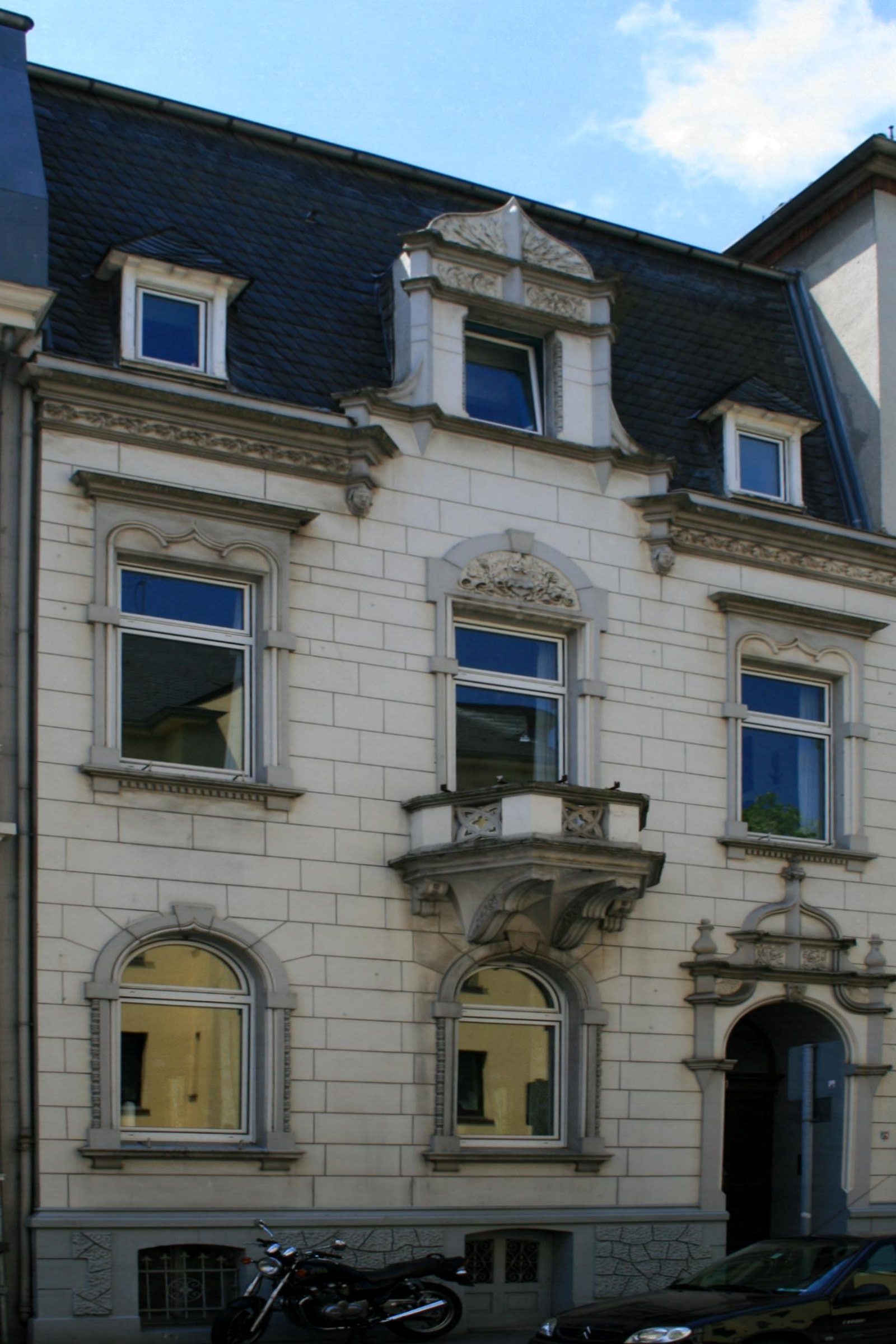 Cultural heritage monument No. B 169 in Mönchengladbach